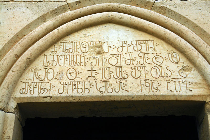 Astomtavruli Georgian Alphabet in David Gareja Monastery